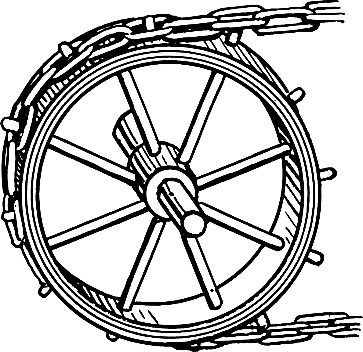 Line art representation of Sprocket